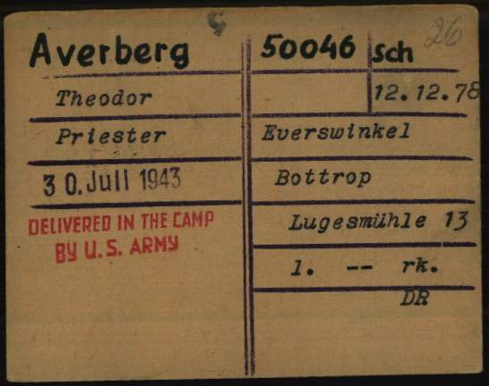 Registration card of Theodor Averberg as a prisoner at Dachau Nazi Concentration Camp. Red stamp means he was liberated from Dachau by the U. S. Army.